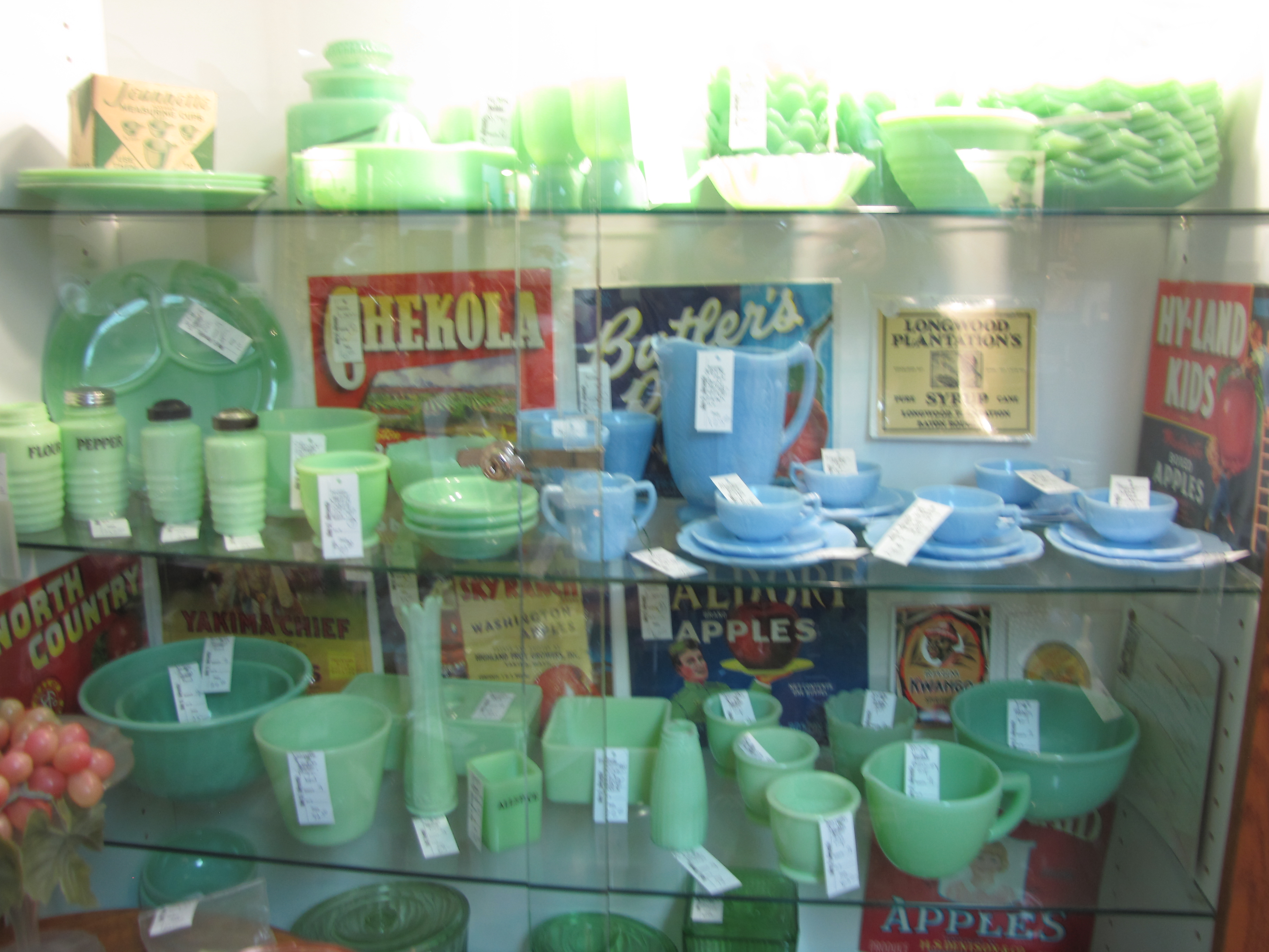 An antique shop display of vintage Jadeite pieces (in green). Rarer blue milkglass tableware is shown also.